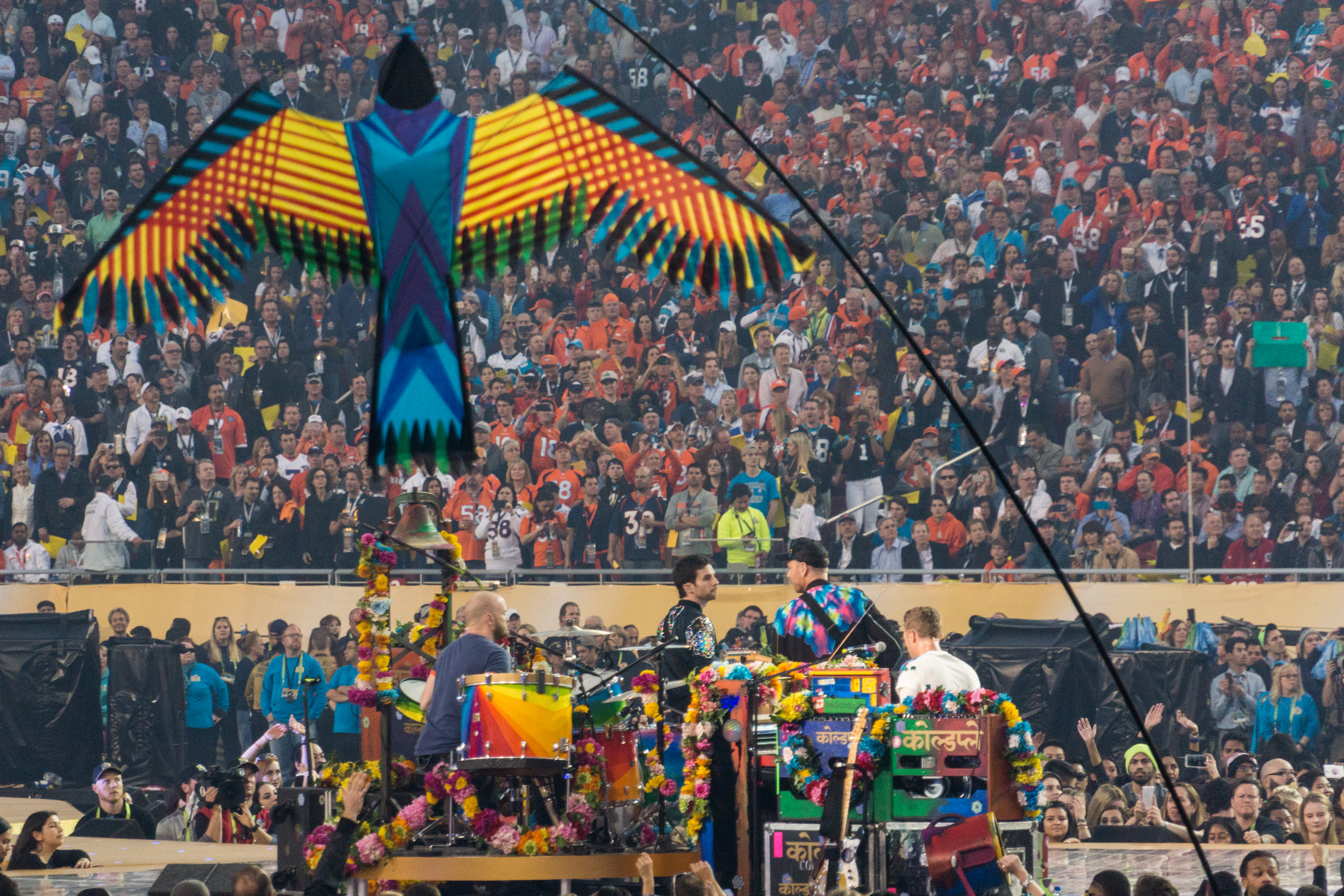 Chris Martin, Coldplay, Denver Broncos, Carolina Panthers, Super Bowl, Super Bowl 50, Santa Clara